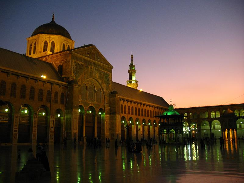 Ummayad Mosque of Damsascus, Syria at night